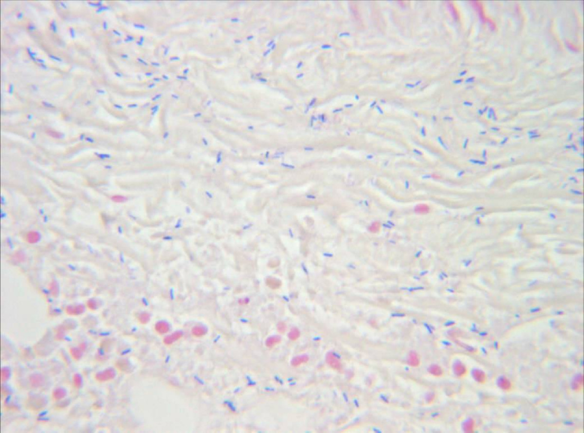 Postoperative pathologic findings of the muscle tissue obtained during surgical removal. Gram-stain, Zoom 1000×. Identification of gram-positive, rod-shaped, anaerobic, spore-forming bacteria in the infected muscle tissue. The result is highly compatible to an infection with clostridium perfringens.